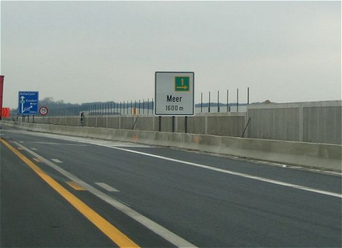 Highway A1/E19 in Belgium, exit 1 in Meer